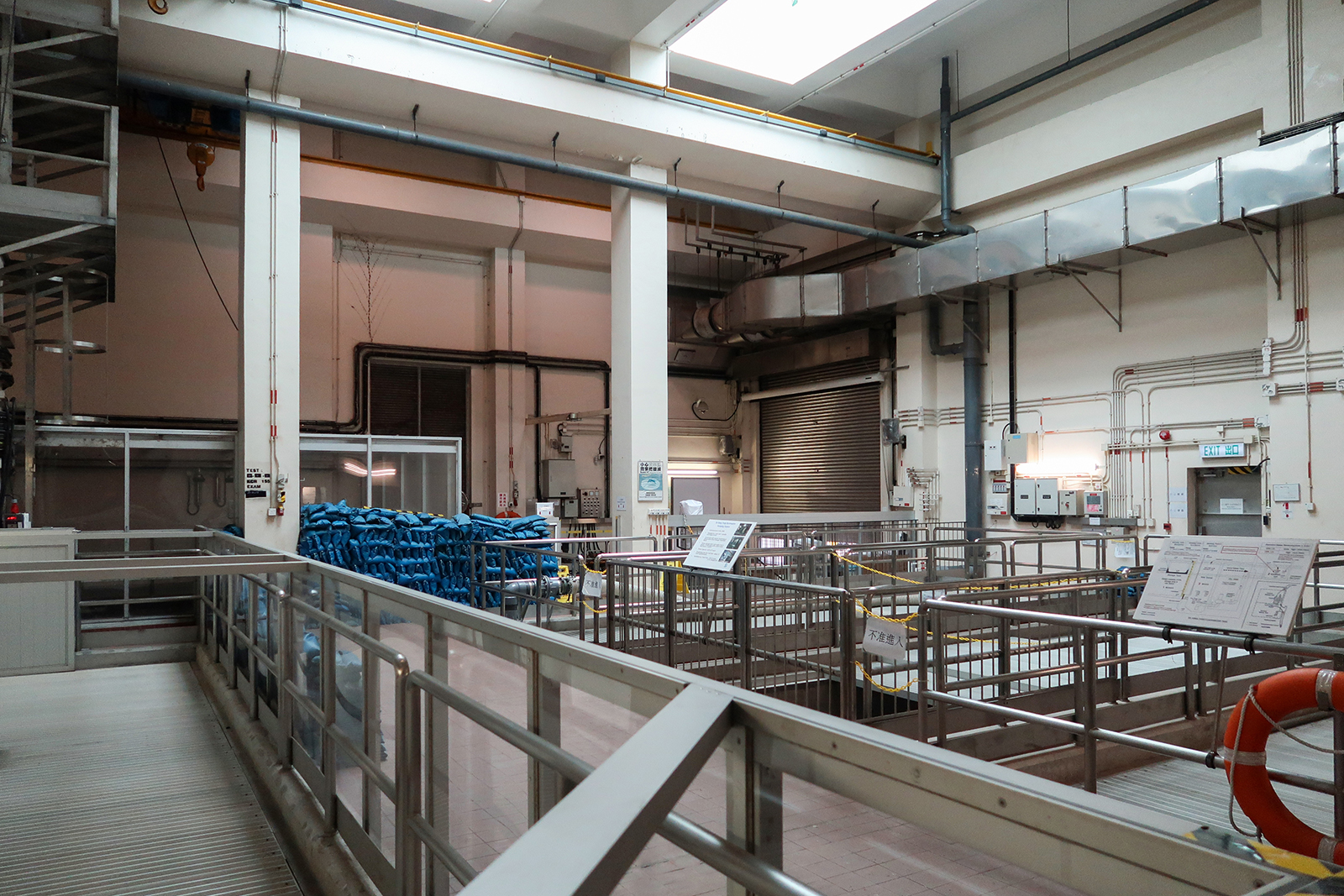 Tai Hang Tung Flood Storage Flood water pumping station interior